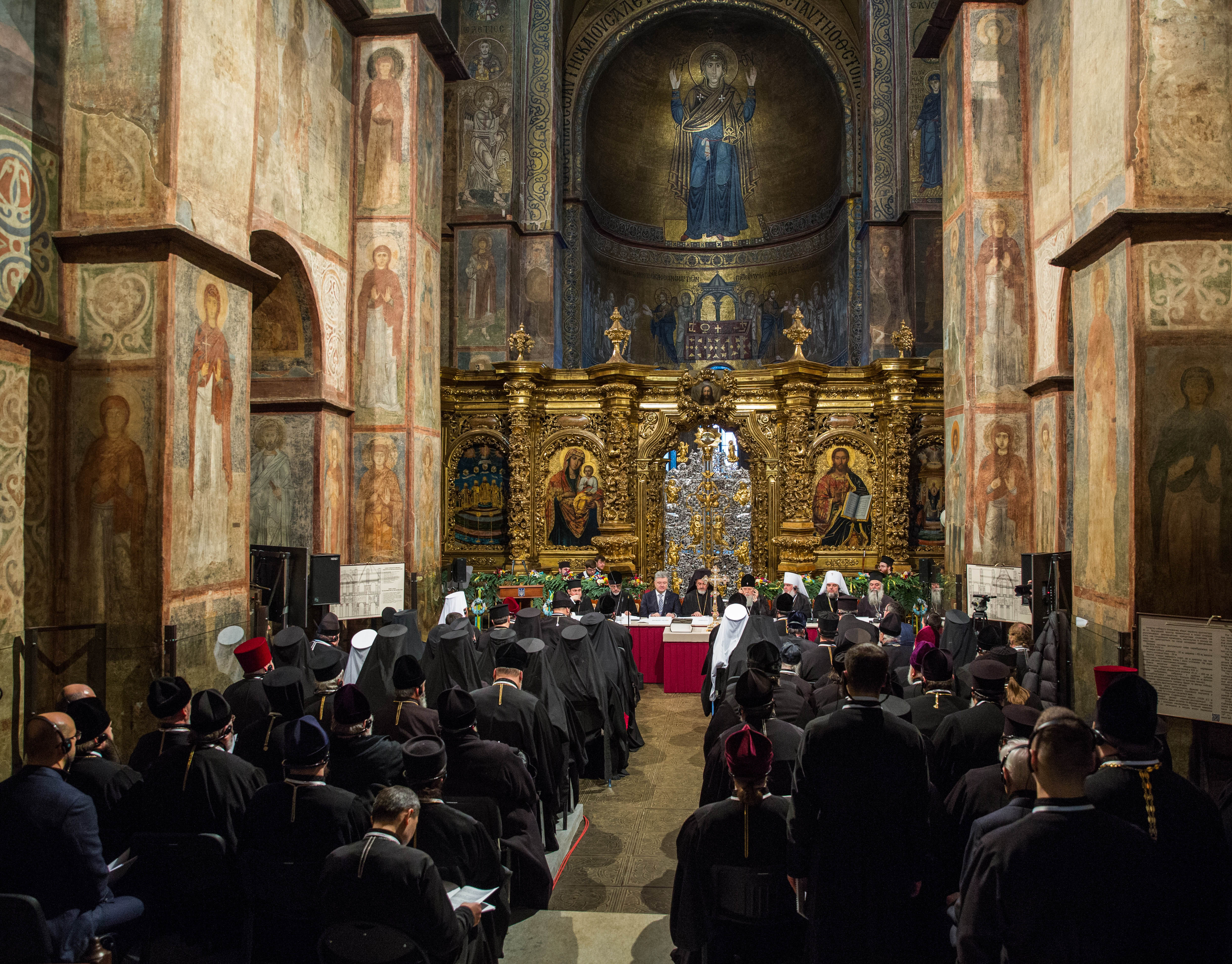 Unification council of Orthodox Church in Ukraine